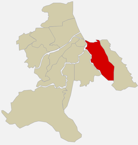 Minato town in 1929.After, part of Hachinohe city.